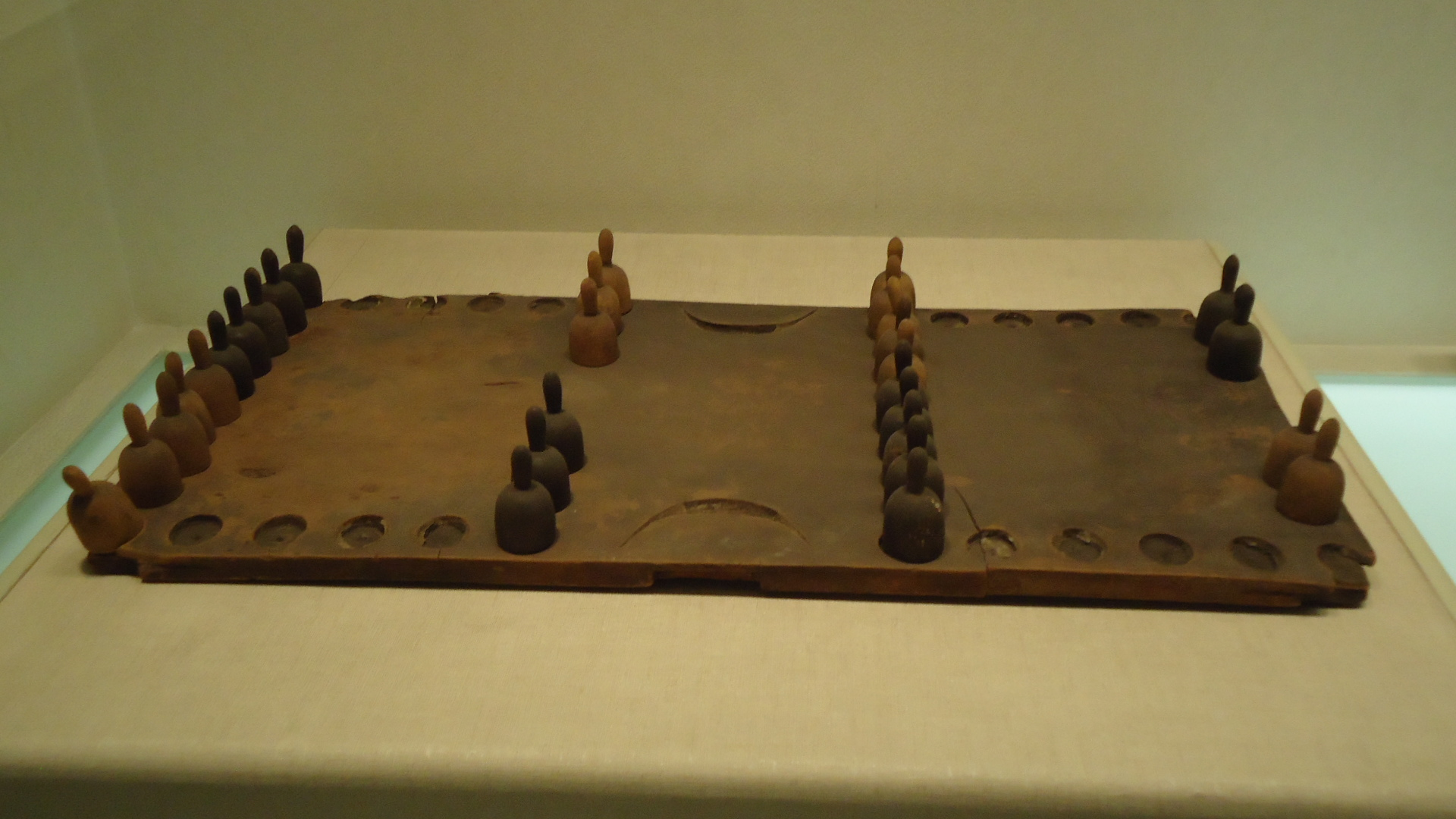 Backgammon was called Double-six chess (双陆) in China. It was popular from the 10th to 13th century.